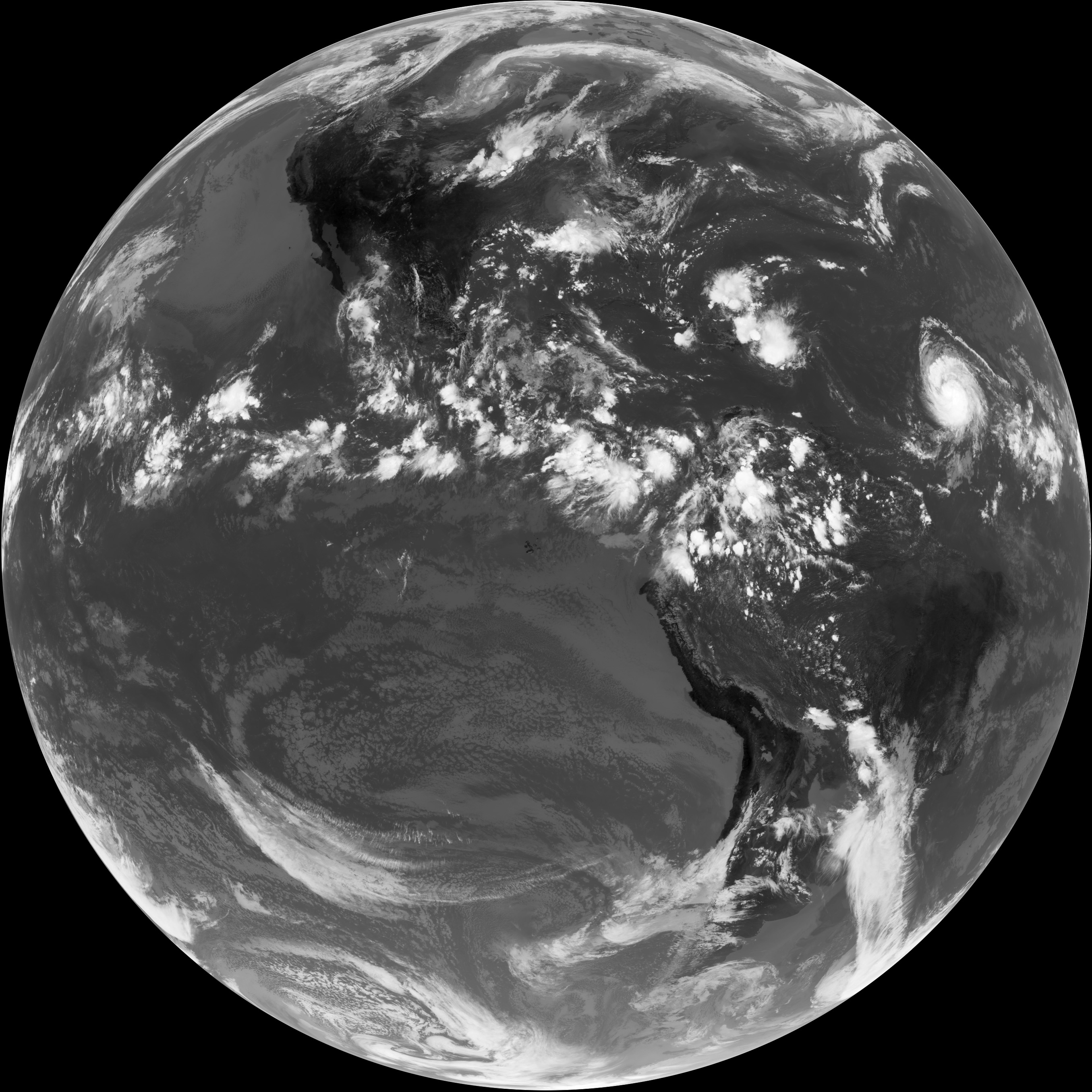 This is the first full-disk thermal infra-red (IR) image taken by GOES 14, showing radiation with a wavelength of 10.7 micrometers emanating from Earth. Infra-red images are useful because they provide information about temperatures. A wavelength of 10.7 micrometers is 15 times longer than the longest wavelength of light (red) that people can see, but scientists can turn the data into a picture by having a computer display cold temperatures as bright white and hot temperatures as black. The hottest (blackest) features in the scene are land surfaces; the coldest (whitest) features in the scene are clouds. In the heat of the midday sun, the exposed rock in sparsely vegetated mountain ranges and high-altitude deserts in western North and South America are dark. In North America, the temperatures cool (fade to lighter grey) along a gradient from west to east, as the semi-deserts of the West and South-west transition to the grasslands and crop-lands of the Great Plains, which transition to forests in the East. A band of scattered storms across the equatorial Pacific shows the location of the Inter-tropical Convergence Zone, which is a belt of showers and thunderstorms that persists near the equator year round. Need help precisely locating the equator? Look for the dark (hot) spots in the Pacific Ocean west of South America: those are the Galapagos Islands, and the equator passes through the northern tip of the largest island. Perhaps the most significant features related to U.S. weather appear in the upper right quadrant of the disk: the remnants of Tropical Storm Claudette drenching the eastern Gulf Coast, Tropical Depression Ana unwinding over Puerto Rico and the Dominican Republic, and Hurricane Bill approaching from the central Atlantic.